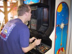 Photo by Jim Rees Battlezone owned by Jim Rees Photo taken at University of Michigan Center for Information Technology Integration, March 21, 2001.